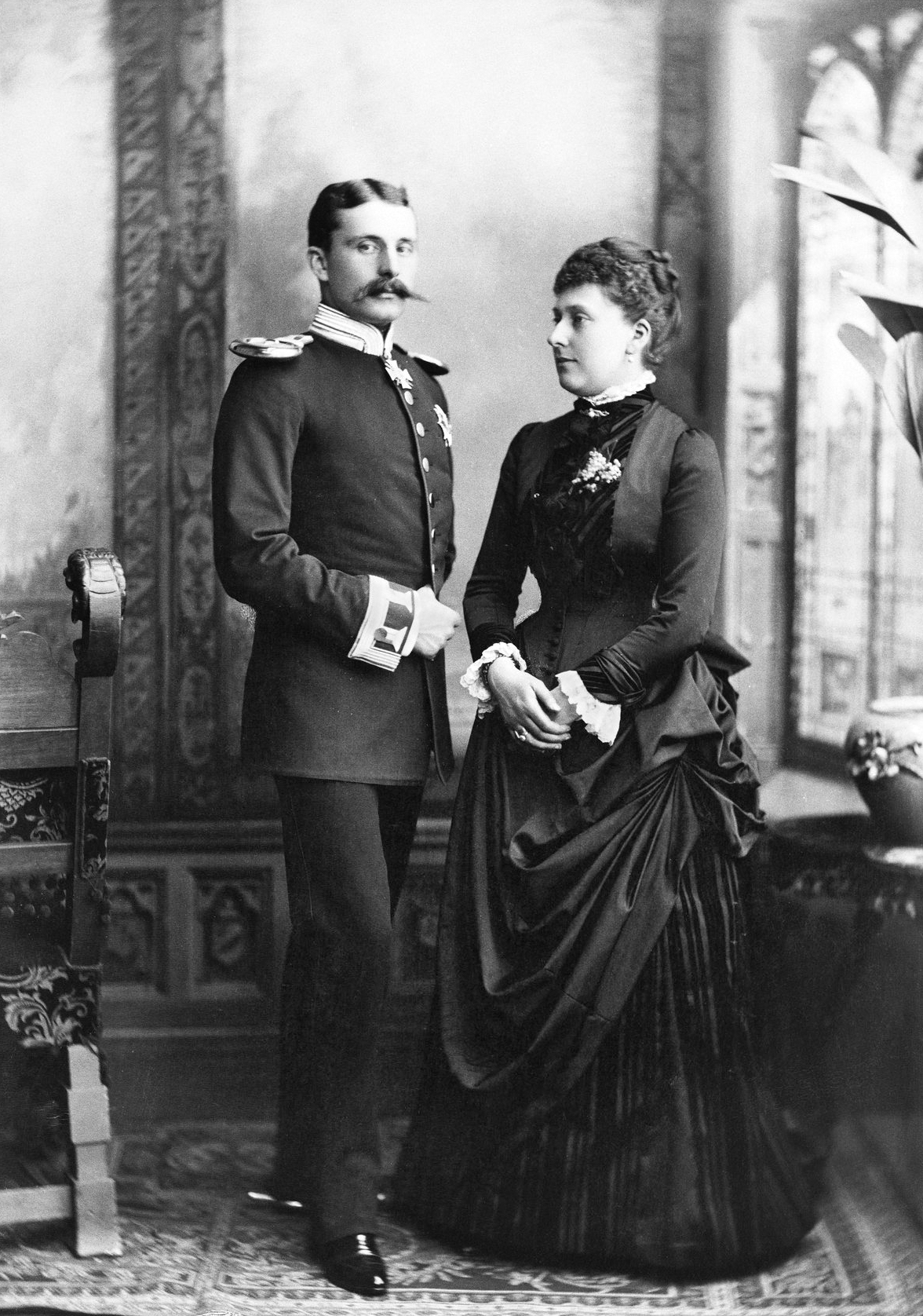 Full length of both Prince Henry of Battenberg (left) and Princess Beatrice standing. Prince Henry in uniform; Princess Beatrice in long-sleeved dress with lace at collar and cuffs.